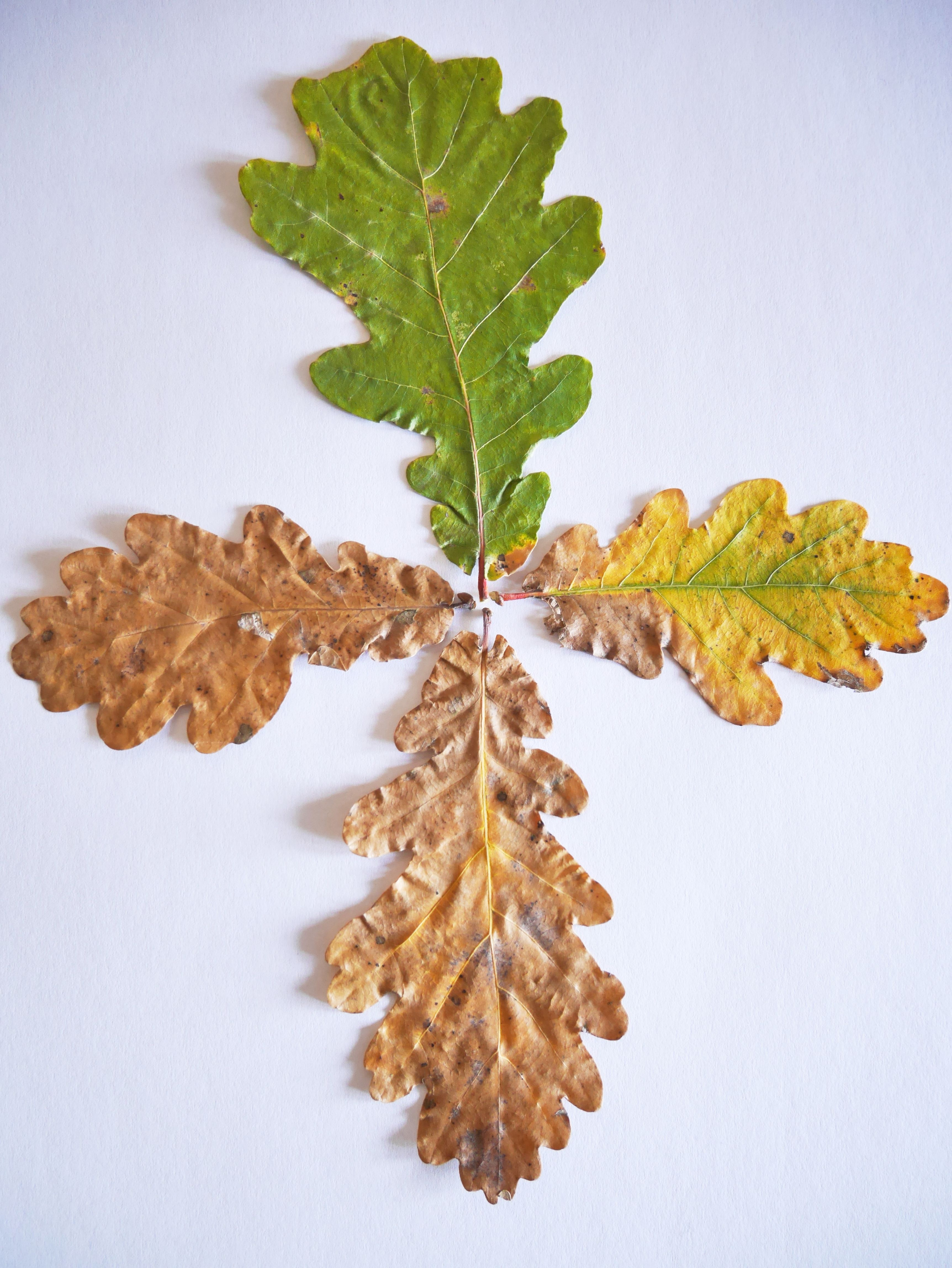 Four leaves of a young,bavarian, oak tree in different stages of coloration: Top: Chlorophyll rich green leaf, Right: Chlorophyll only still present close to the leaf vessels, therefore the yellowish Carotinoid-pigments dominate, Bottom: Yellow coloration only still present close to the leaf vessels, Left: Leaf with signs of beginning decomposition